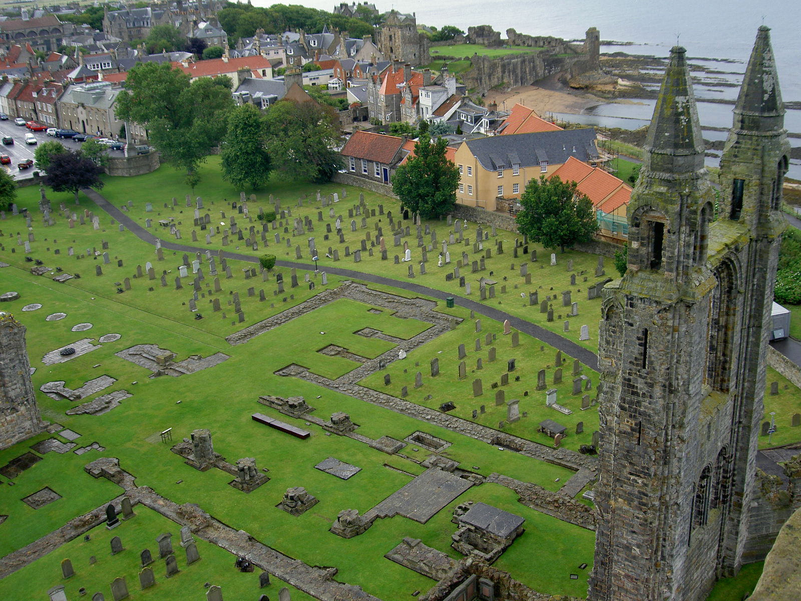 A view of the town of St Andrews from the top of St Rule's Tower.